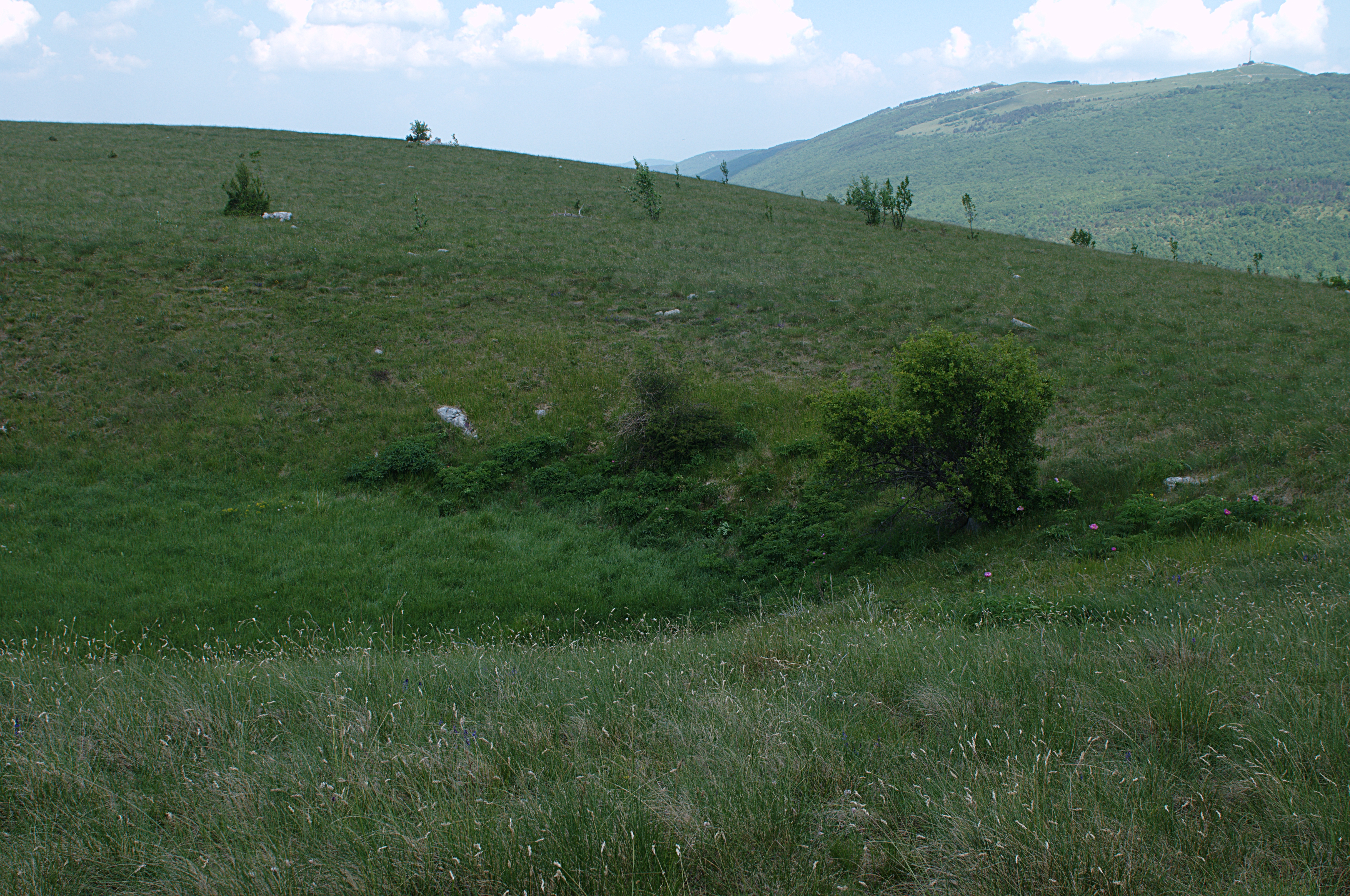 Pelatea klugiana, habitat Location: Podgorje, Slovenia 8 EX DG Makro f/6,3 Film / Speed: ISO 320 Comment: identification: Stanislav Gomboc